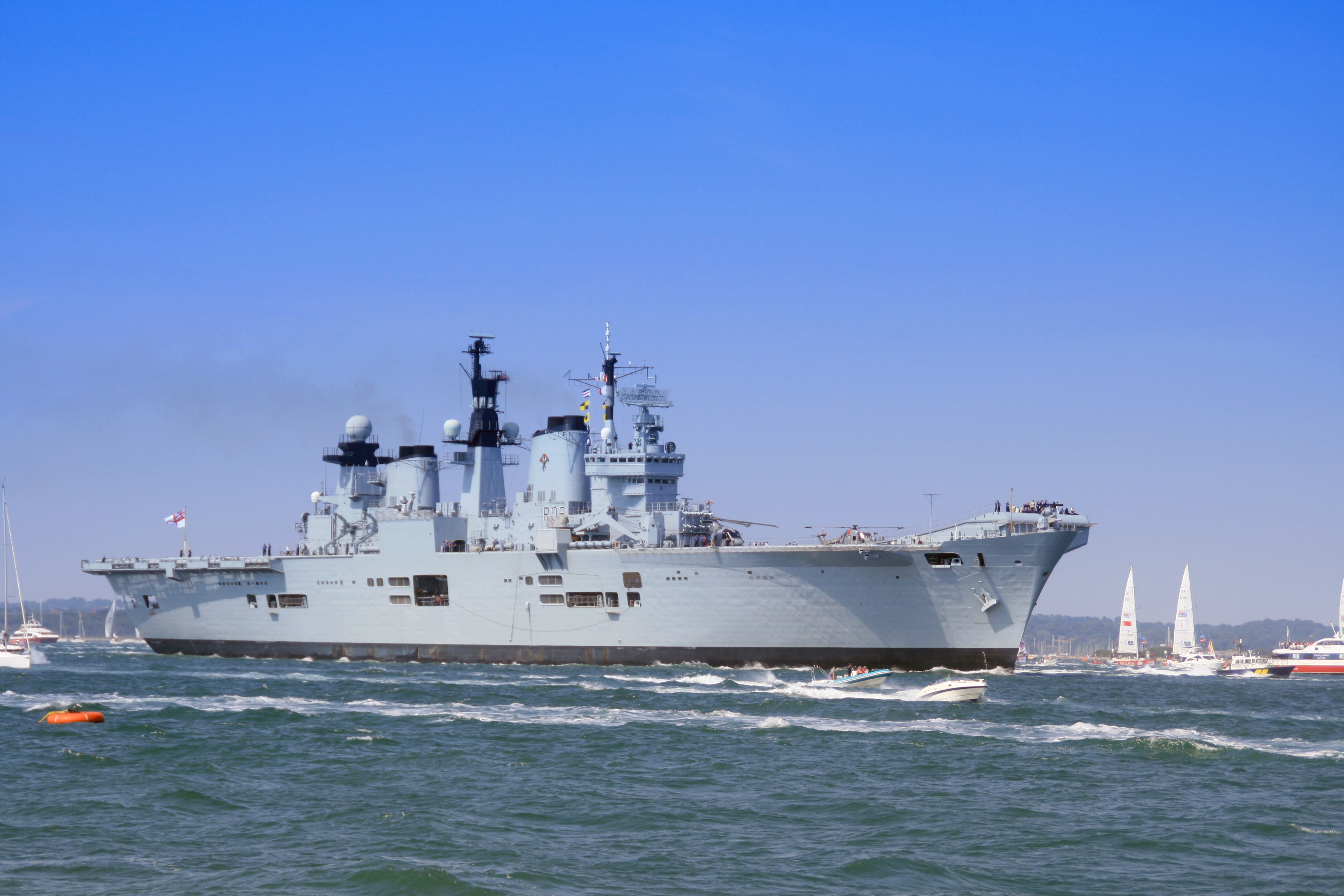 Invincible class aircraft carrier HMS Illustrious southbound in Southampton Water on 31 July 2011, leading the contestants in the 2011- 2012 Clipper Round the World Yacht Race to the start line off Cowes, Isle of Wight. Image uploaded by me User:George.Hutchinson from a photograph taken by and supplied by Brian Burnell. Wikipedia editors are reminded that the copyright remains with the photographer, and that the terms of the GFDL/CC-BY-SA license that allow editors to reuse this image apply to Wikipedia editors also, as they do to other reusers of this image. Breaches of the licence terms are not only unlawful, but are also antisocial, in that breaches discourage photographers from making their images freely available to everyone without payment. Non-Wikipedia users are requested to advise Brian Burnell of its use other than on Wikipedia.